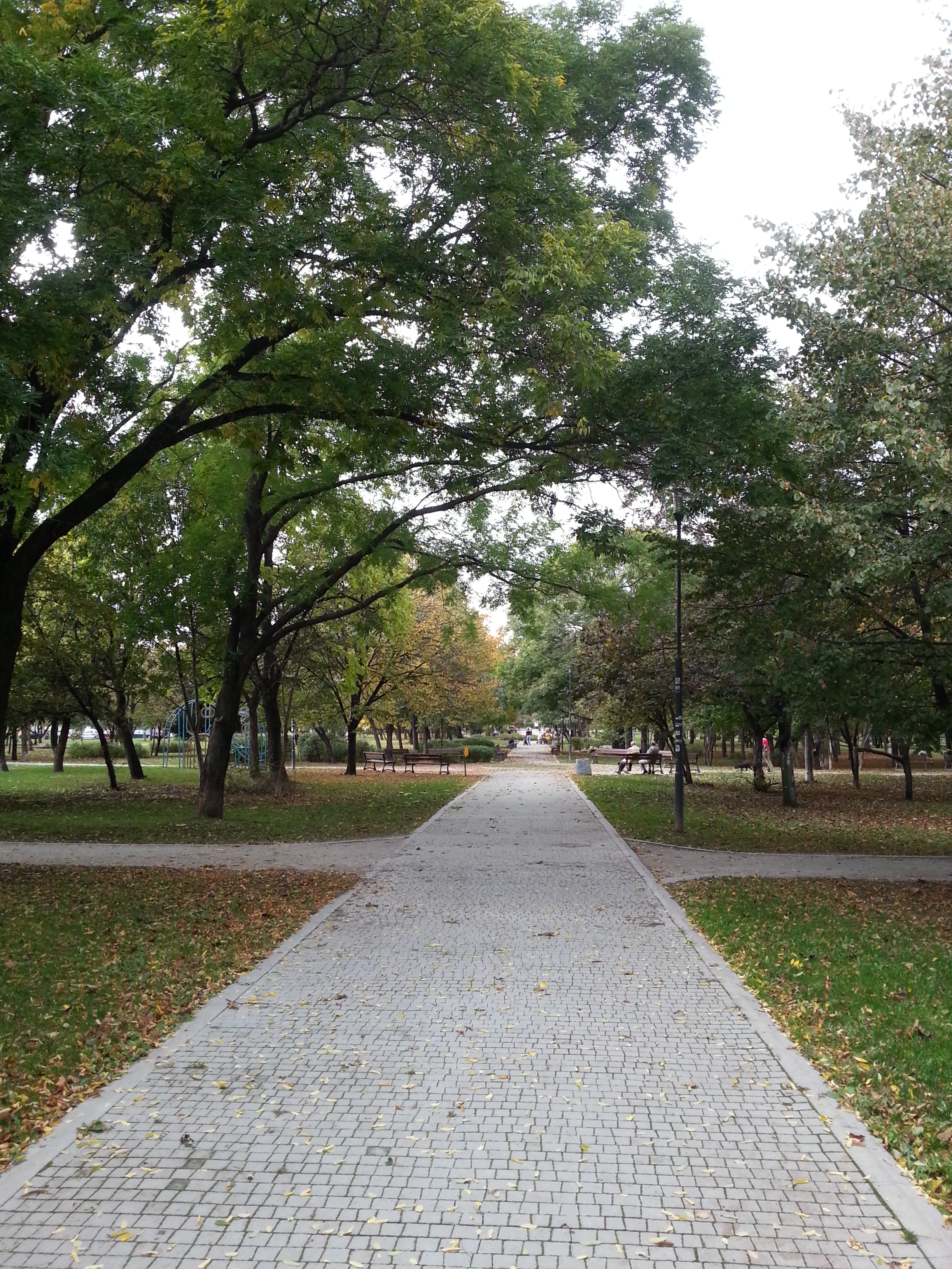 Geo Milev Park, Sofia